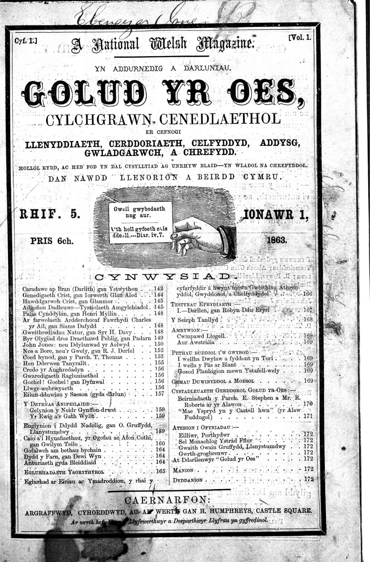 A monthly Welsh language non-denominational general periodical that published articles on history, literature, music, religion, science and the natural world, alongside poetry. The periodical was edited by its founder the printer and publisher, Hugh Humphreys (1817-1896).